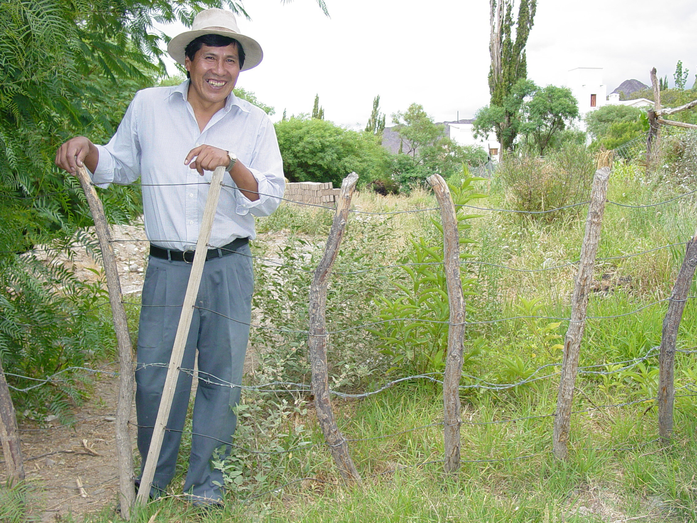 Indian farmer in Cachi, Argentina. December 2003.